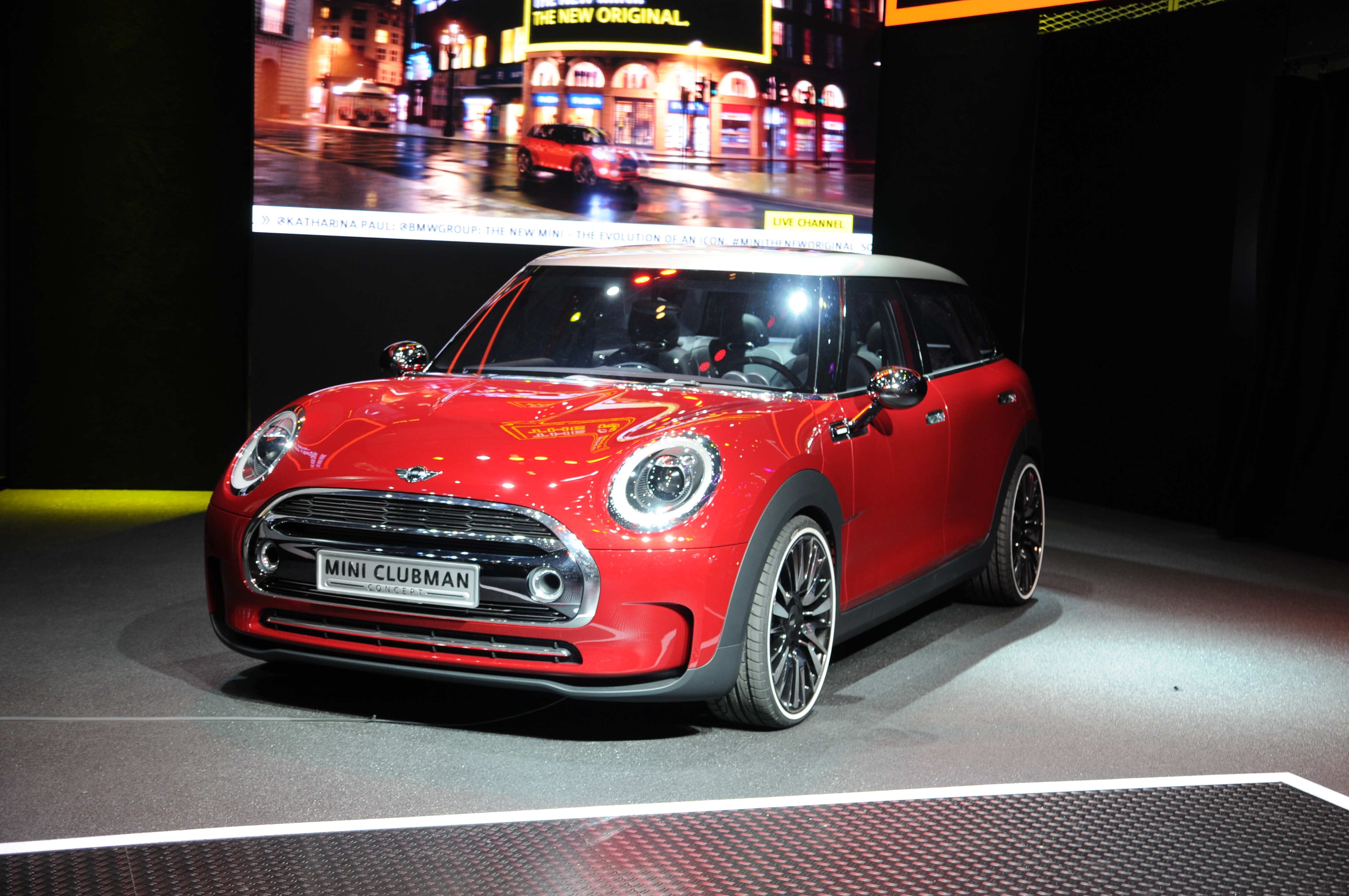 Geneva Motor Show 2014 (photo taken on the first press day)